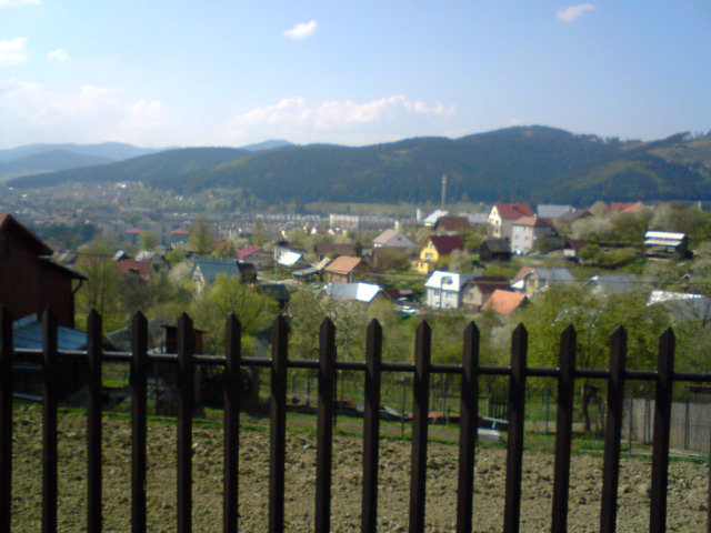 Budatínska Lehota part of Kysucké Nové Mesto, Slovakia